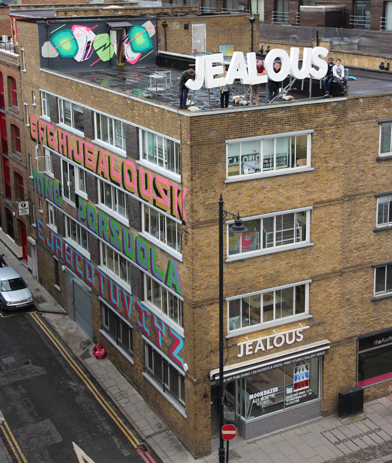 Shot of print studio and gallery